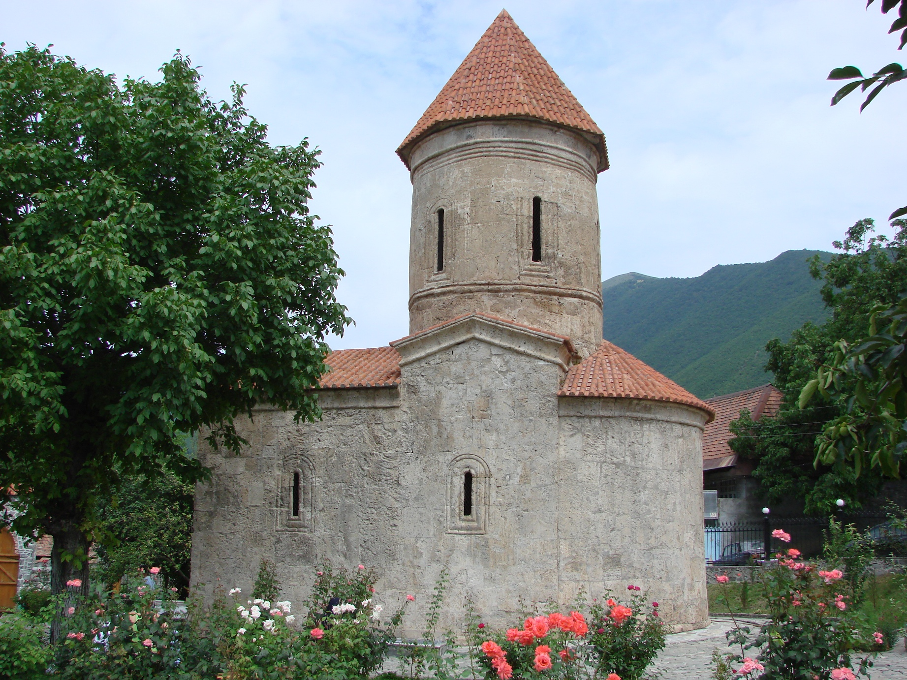 Side view of the church in the village of Kish in Azerbaijan